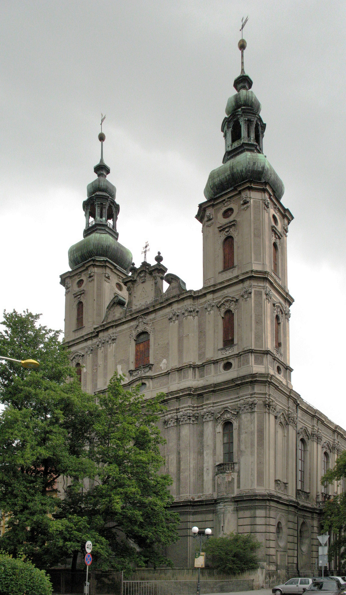 Saints Peter and Paul Church in Nysa, Lower Silesia, Poland